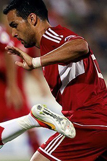 Iran v Lebanon at the 2014 FIFA World Cup qualifiers.